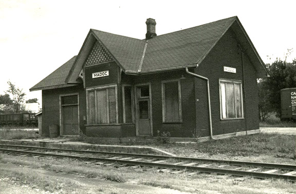 This image shows Madoc Station on the Belleville and North Hastings Railway, looking from the southwest towards northeast. The station was located just north of St. Lawrence Street on the western side of Madoc, Ontario. The photographer, David Woodhead, took this image some time around 1974, shortly before the station burned down. It is already abandoned at this point. The switchyard can be seen behind the station, with some CN cars on it. The area has since been redeveloped as the Center Hastings Fire Department and the switchyard holds a helicopter landing pad, along with ample empty space.